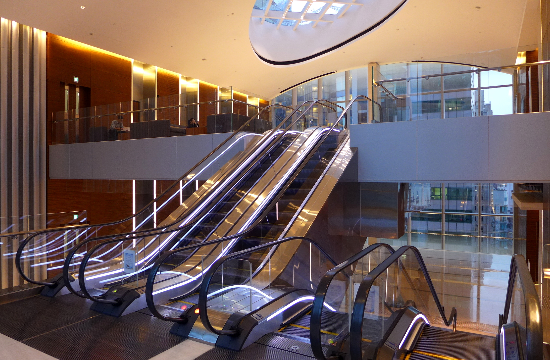 Hysan Place Level 9 Office Lobby Atrium